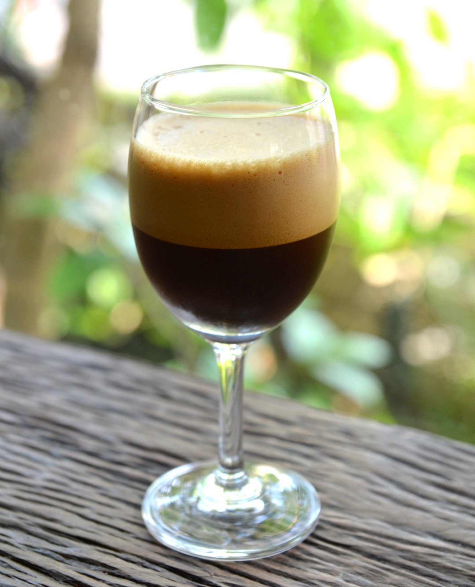 Caffe shakerato is in its basic form an espresso with sugar added, and shaken in a cocktail shaker. Ideal for hot days.